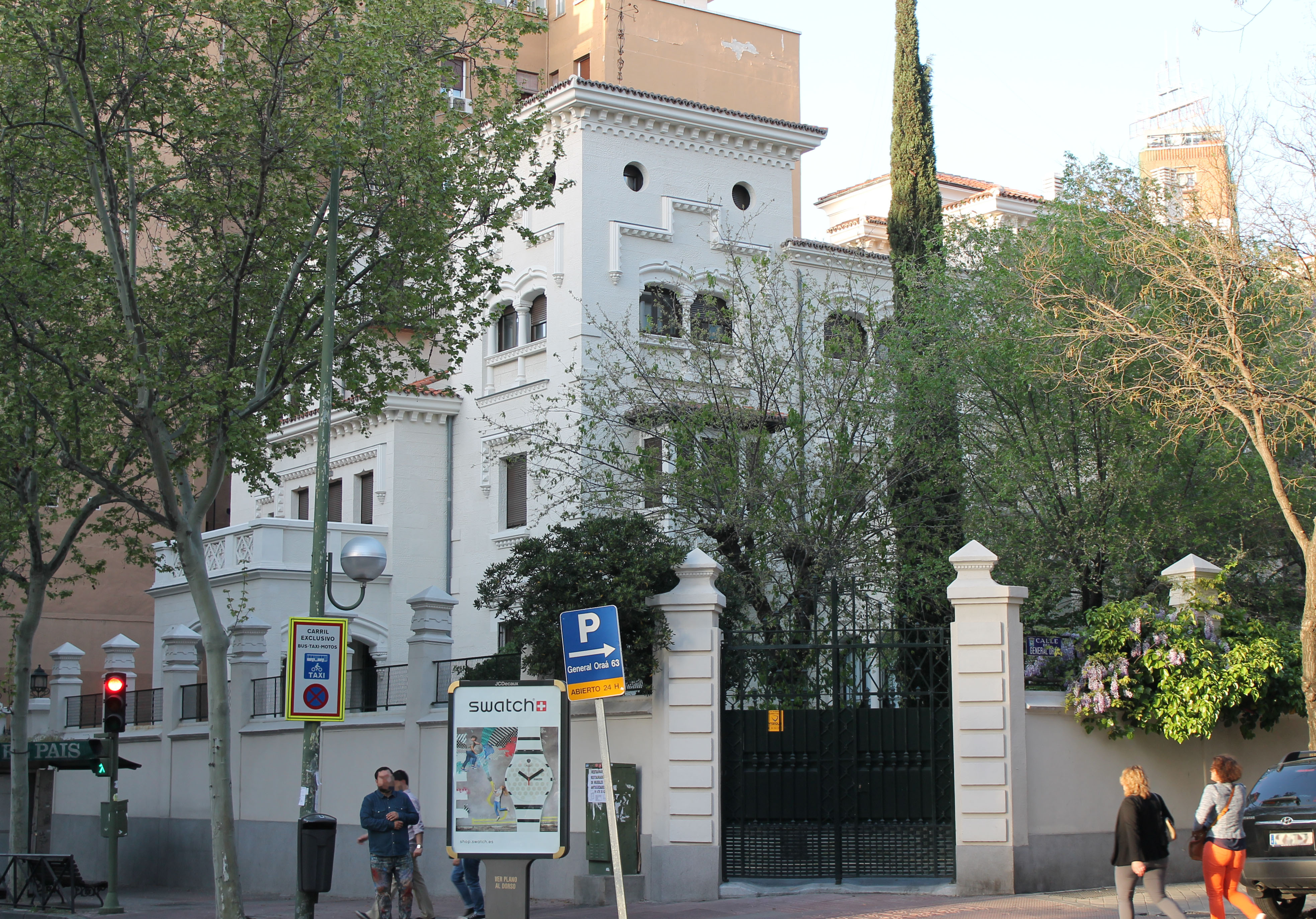 The headquarters of Teresian Association (former house of José Goyanes Capdevila) in Madrid (Spain).